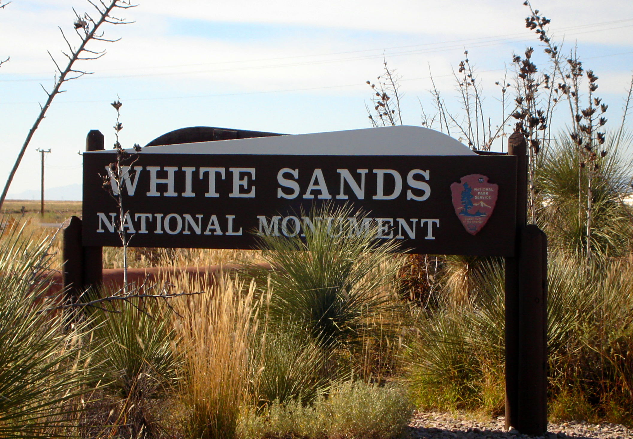 White Sands National Monument Main Entrace Sign